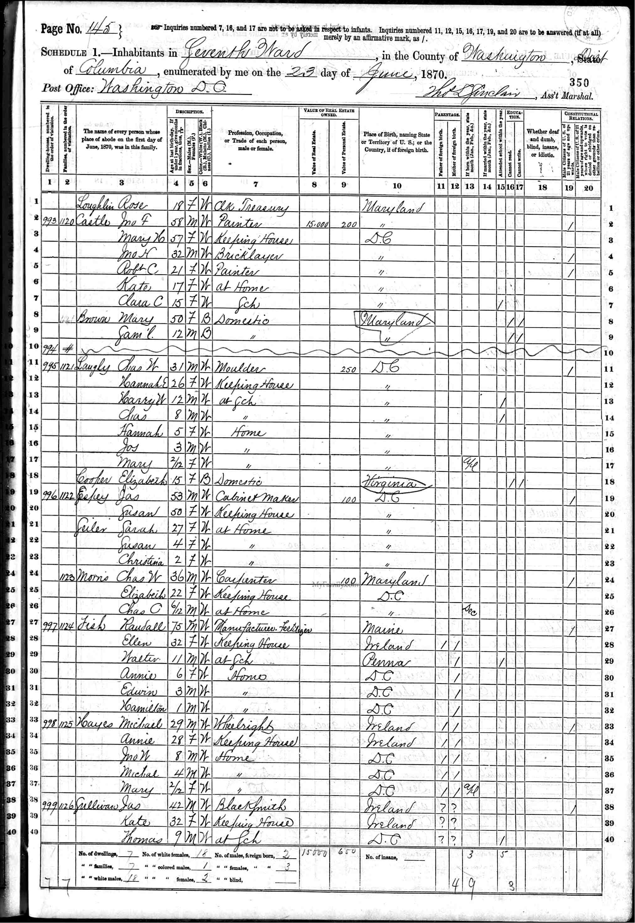 Albert Fish in the 1870 US Census Source 1870 US Census